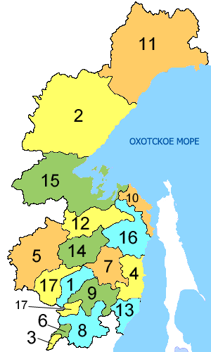 Map of areals of Khabarovsk kray